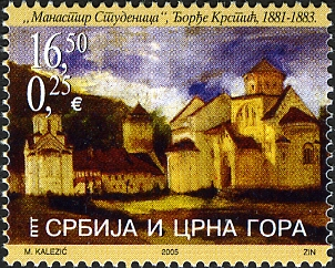 Art - Monastery Sudenica by Djordje Krstic